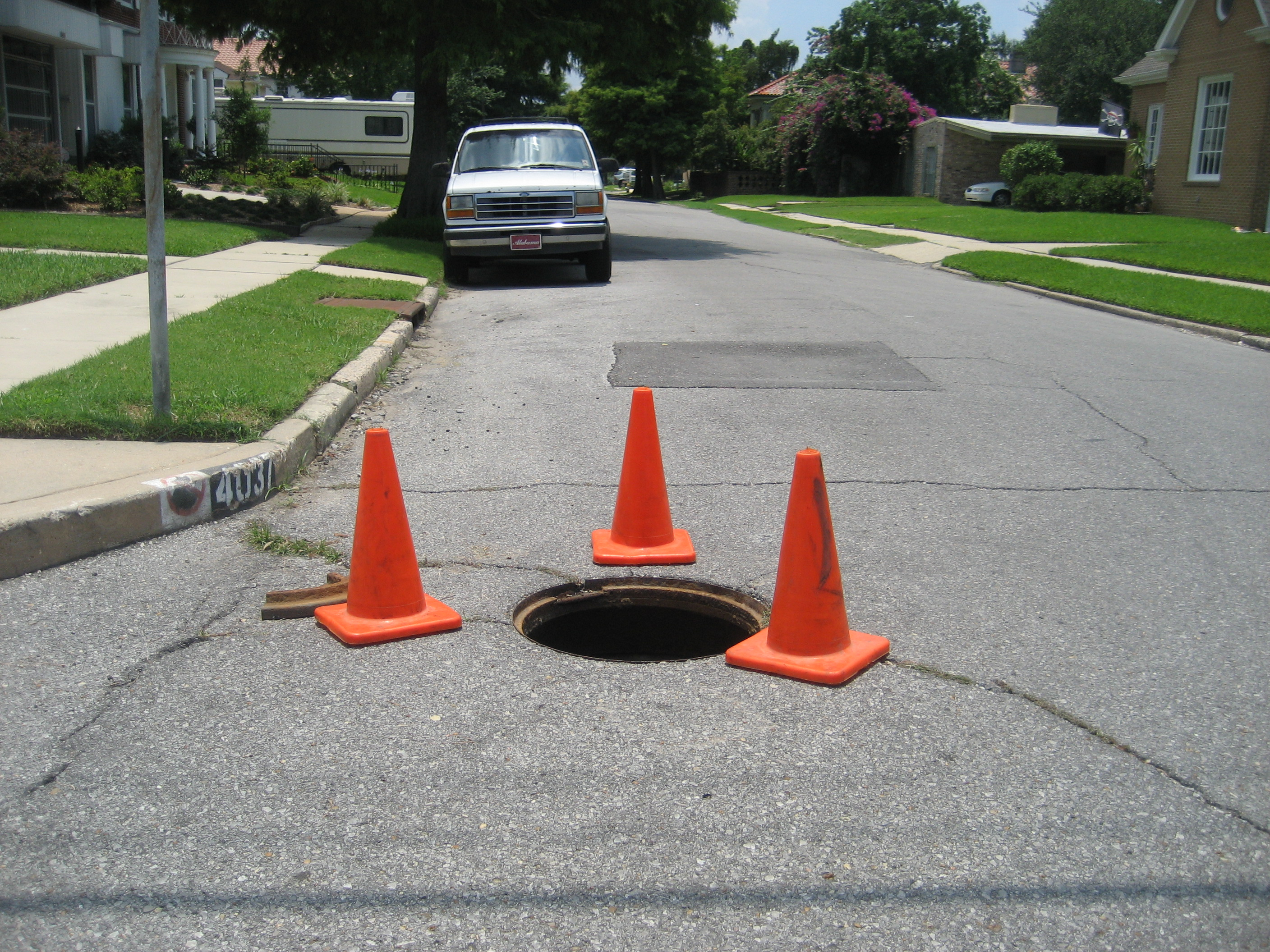 Open manhole without cover, marked with orange cones. Broadmoor section of New Orleans. (Manhole cover cracked and was yet to be replaced.)